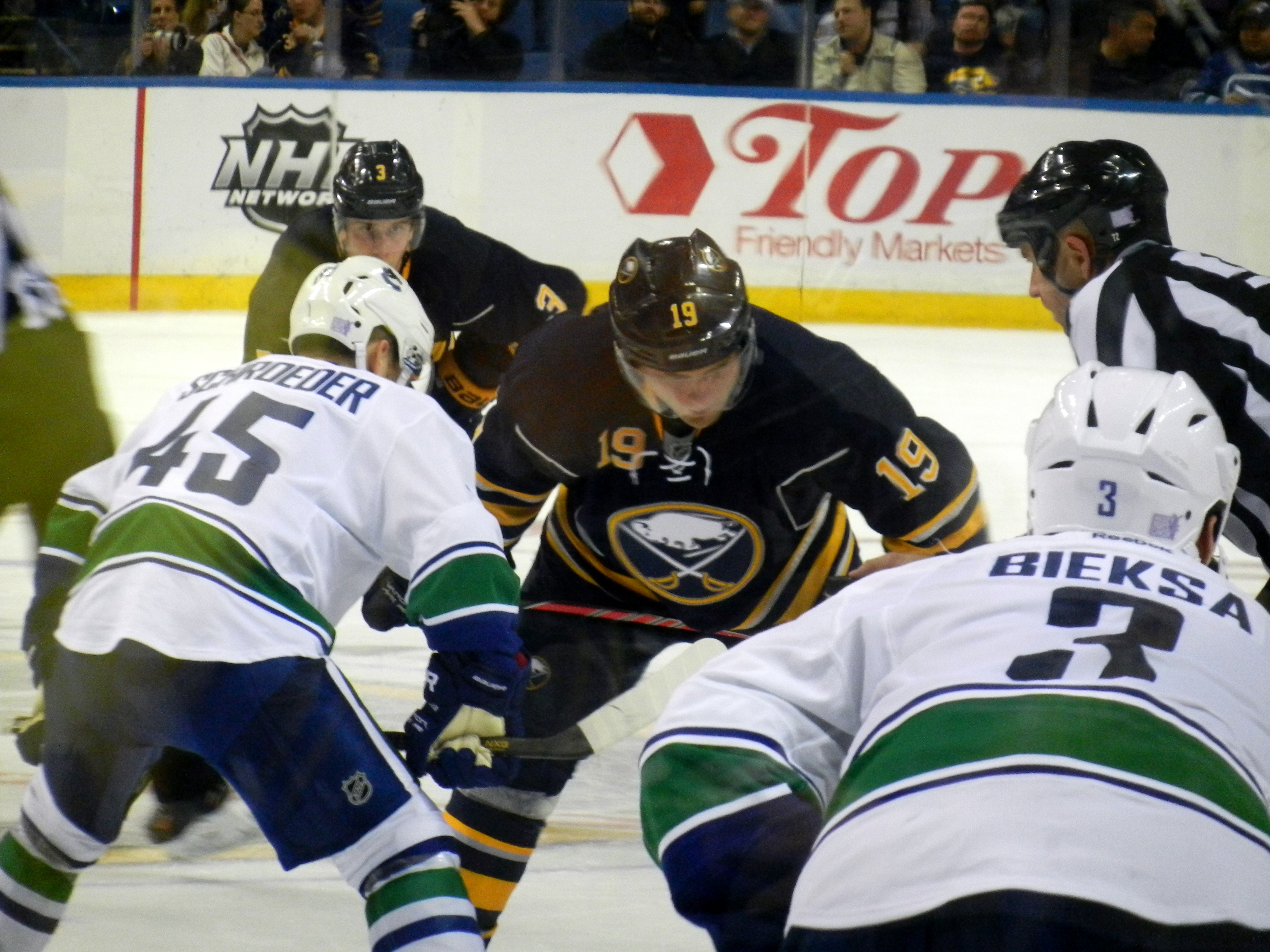 Cody Hodgson (19) with the Buffalo Sabres takes a face-off against Jordan Schroeder (45) with the Vancouver Canucks while Kevin Bieksa (3 white) looks on.